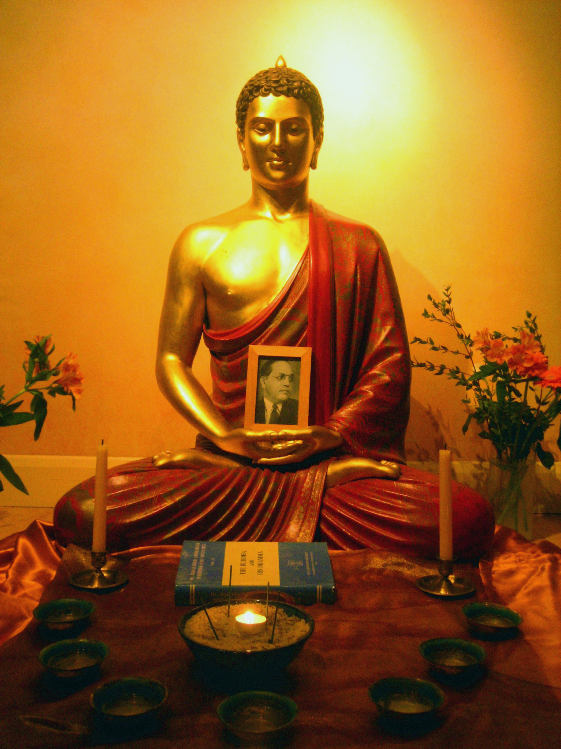 Marking the 50th anniversary of Dr. Ambedkar's conversion to Buddhism.